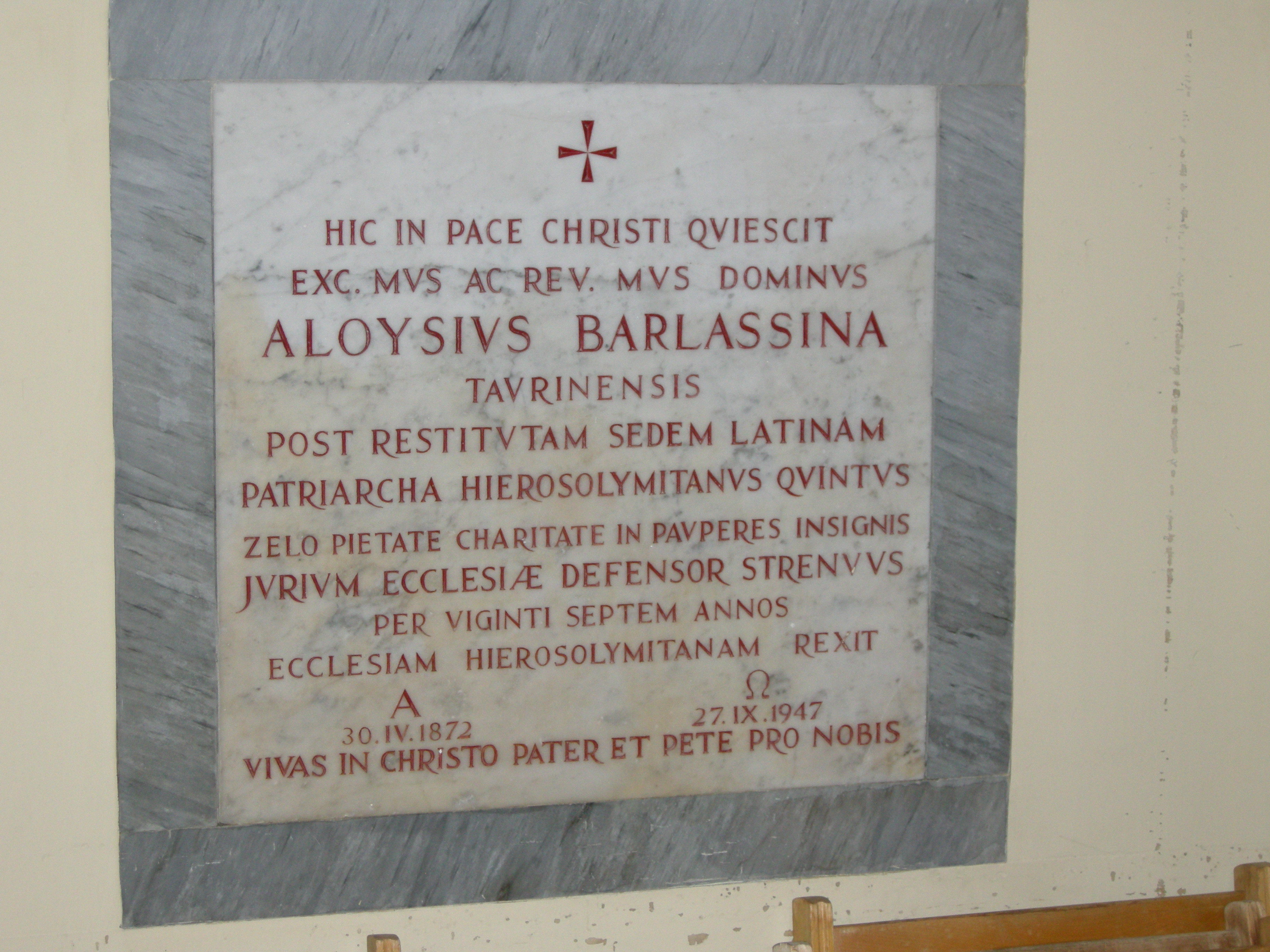 Visit in the Concathedral of the Latin Patriarch of Jerusalem